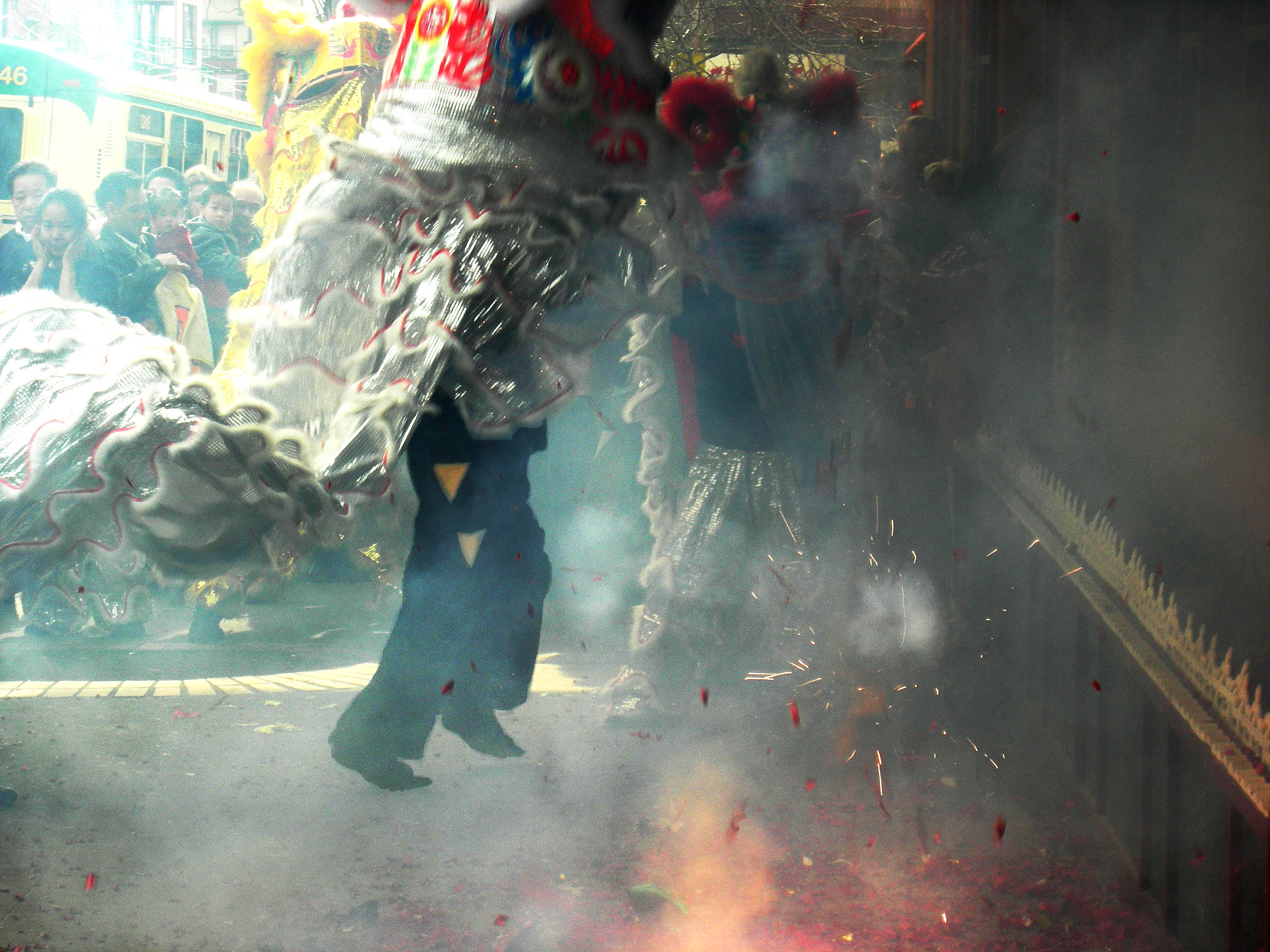 Lion dancers in the fog of firecracker smoke, Chinese New Year in front of House of Hong, International District, Seattle, Washington. In the background, behind the crowd, is the #99 trolleybus, a temporary replacement for the #99 streetcar.